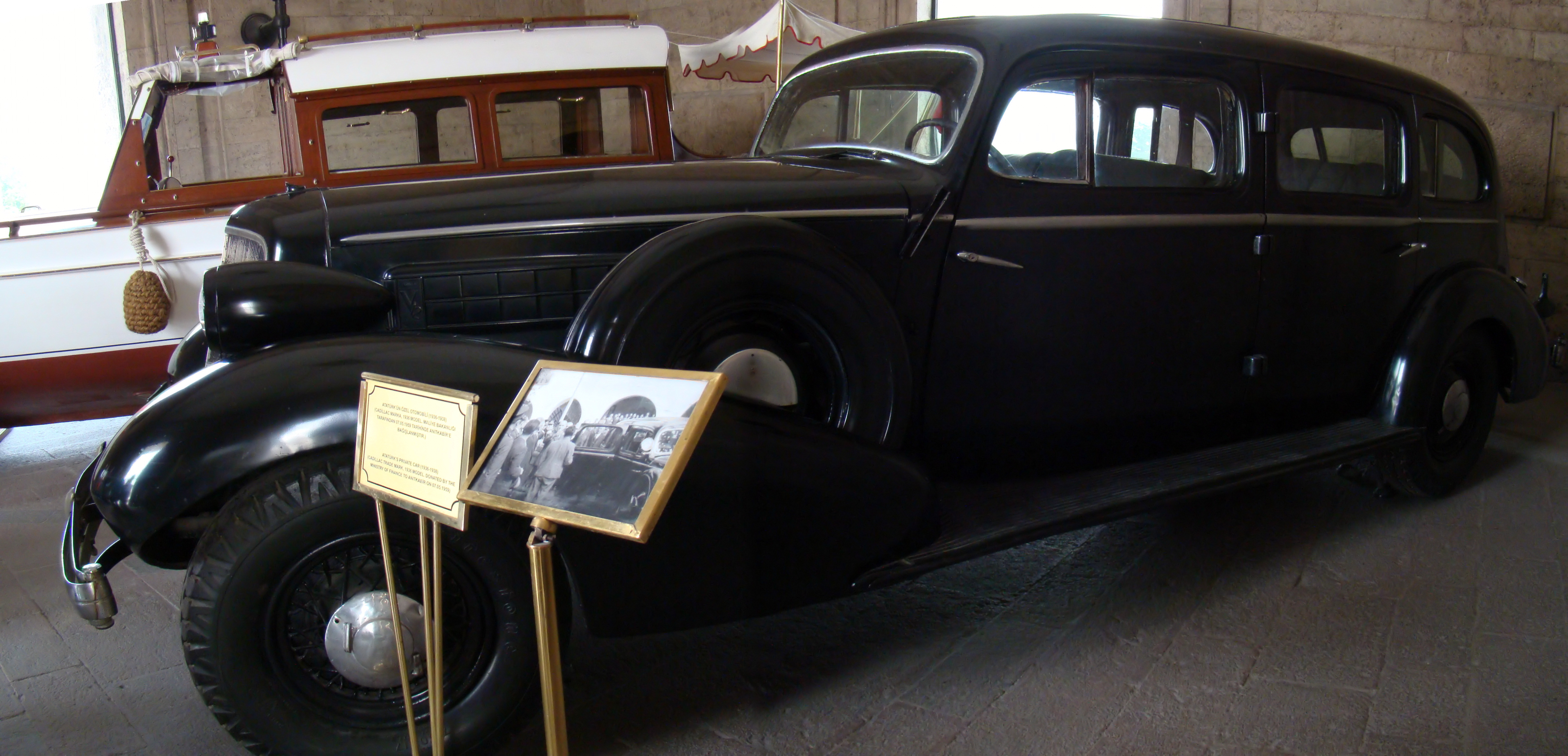 A Cadillac 1936 that used to be Kemal Atatürk's private car from 1936-1938. It is currently on display in the 23rd April Tower at the Anıtkabir mausoleum complex in Ankara, Turkey. In the background there's a leisure boat that also belonged to Atatürk.